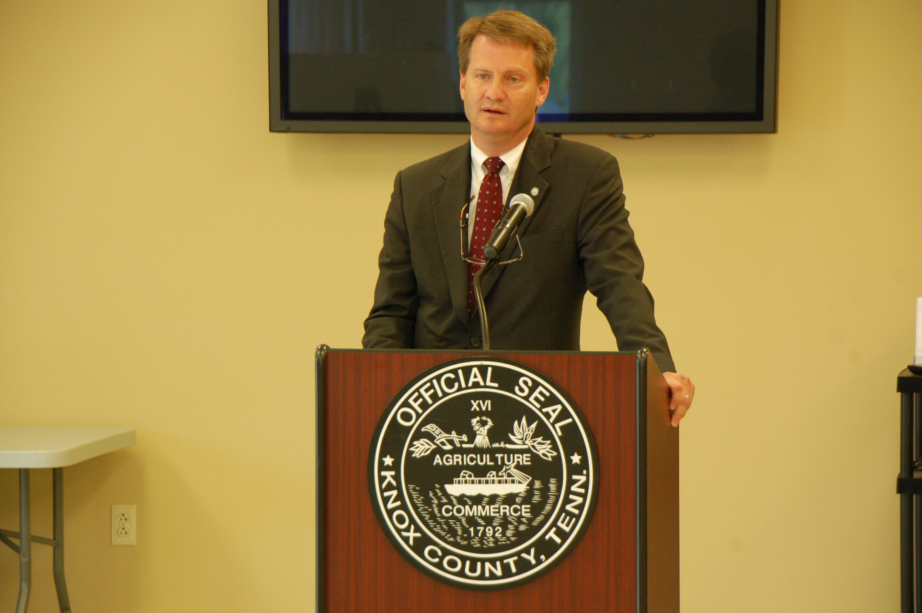 Tim Burchett